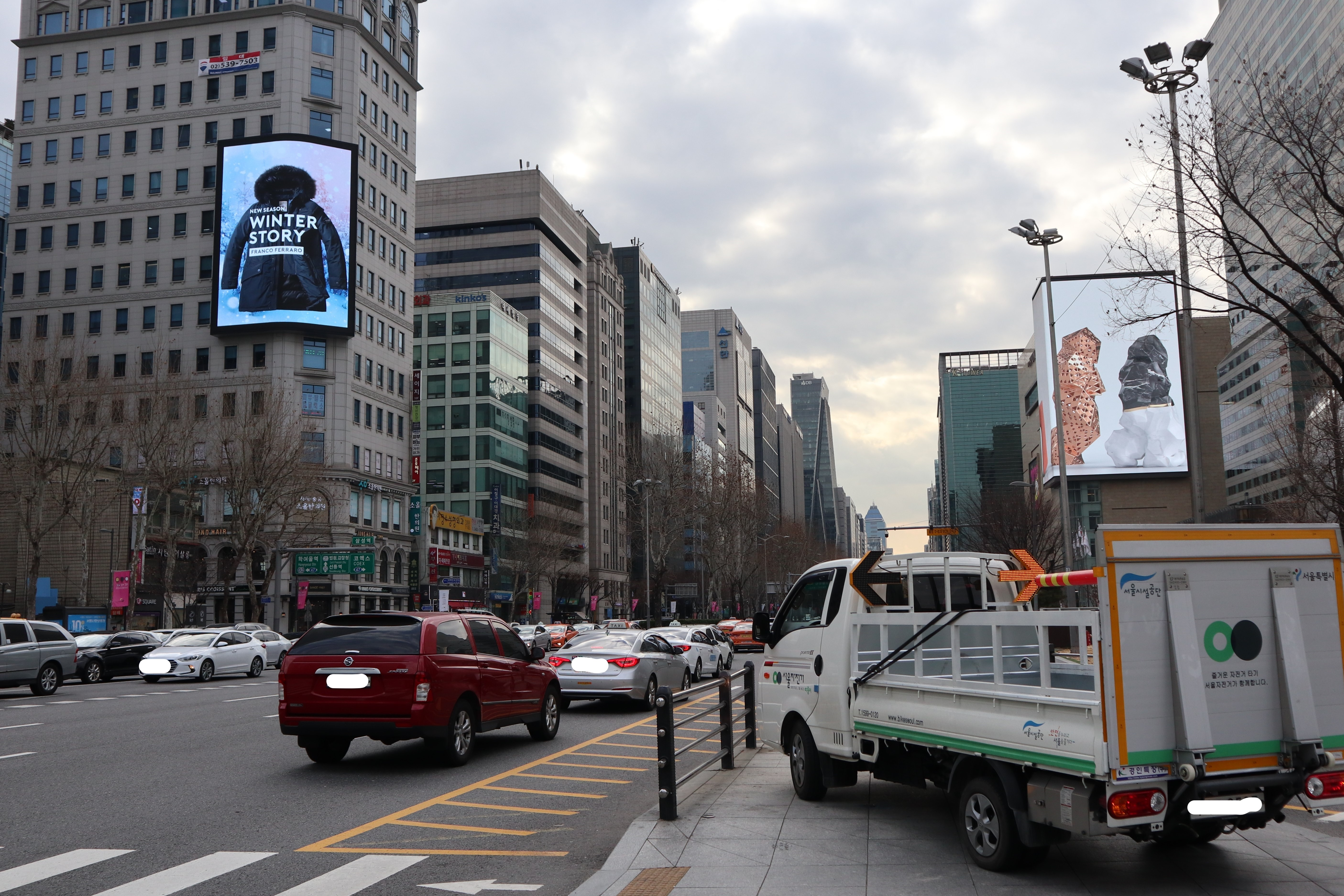 Teheran-ro in Samseong-dong, Seoul, South Korea